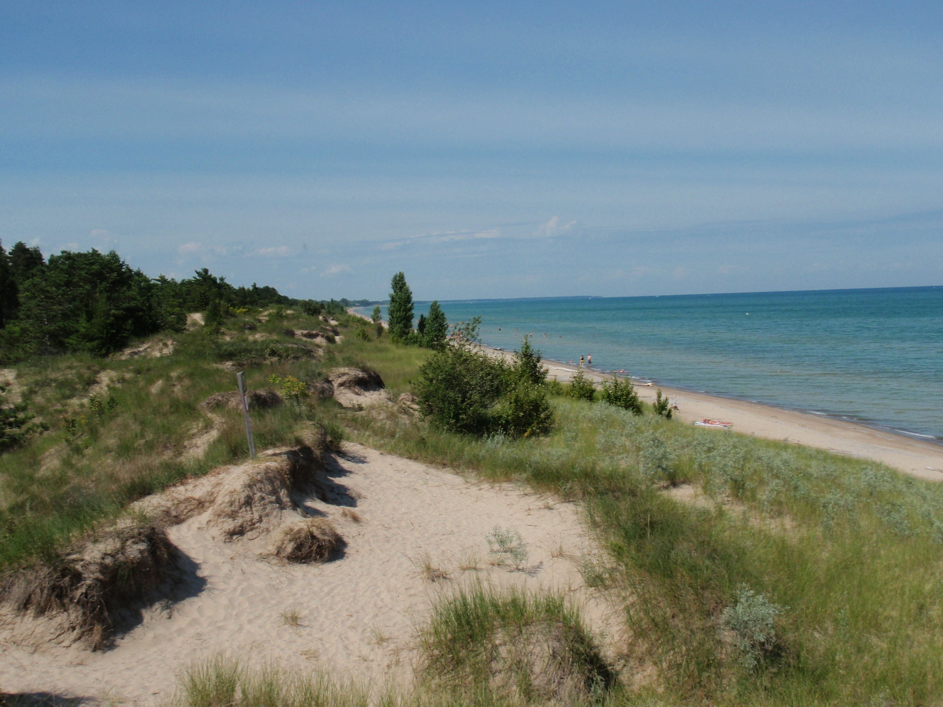 Ontario